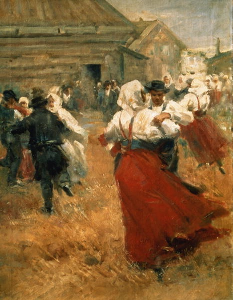 Country festival